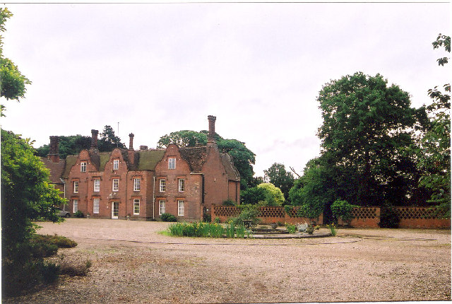 Reydon Hall, near Southwold, Suffolk. View taken from the B1116. Reydon Hall was the home of the Strickland family in the early 1800s. Two daughters, women authors Catherine Parr Traill and Suzanna Moodie, who emigrated to Canada wrote of the challenges of early Canadian rural/bush life.